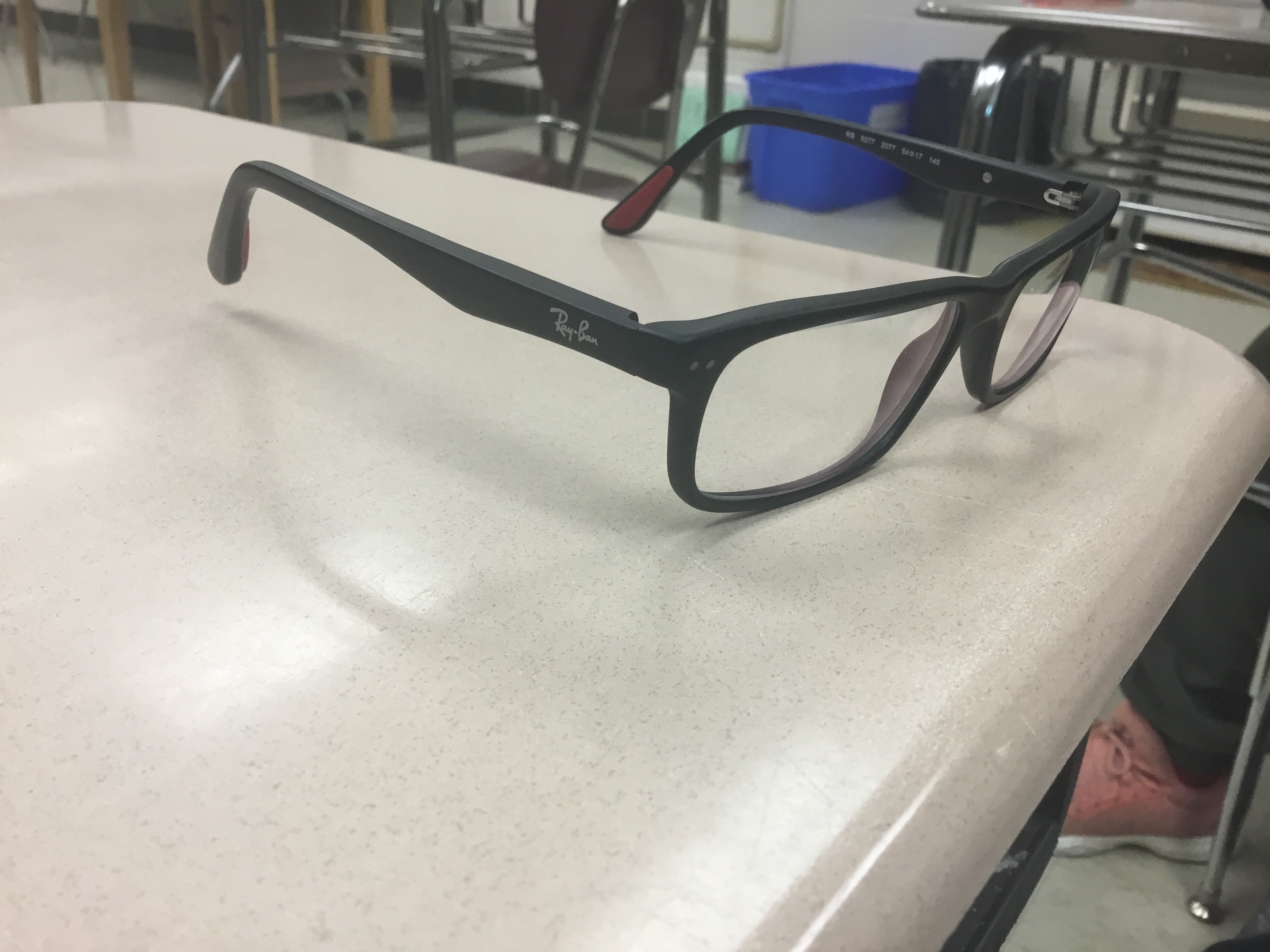 Black and red Ray Ban prescription glasses